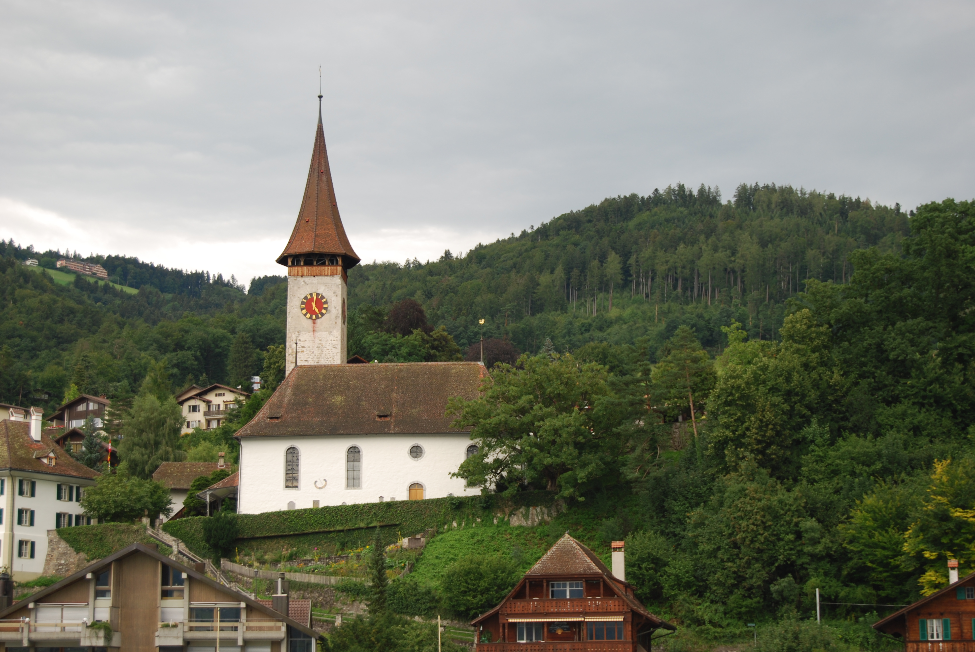 Church of Hilterfingen, canton of Bern, Switzerland